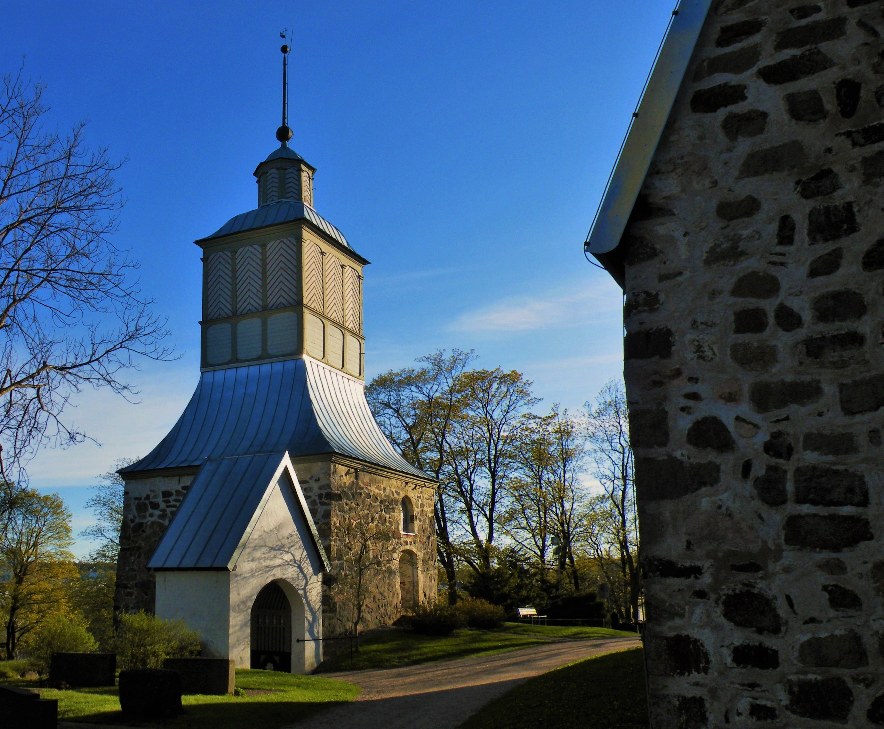 The bellfry was built during the middleages. The visible timber is from year 1709. Parainen, Finland.